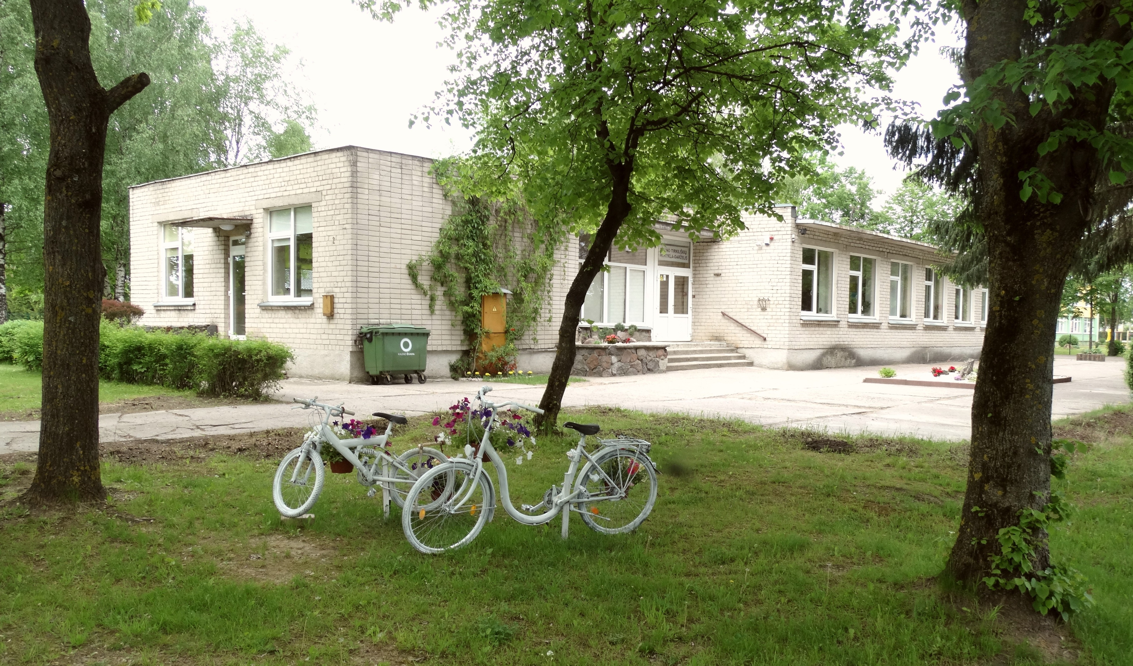 Tirkiliškiai School, Kaunas, Lithuania